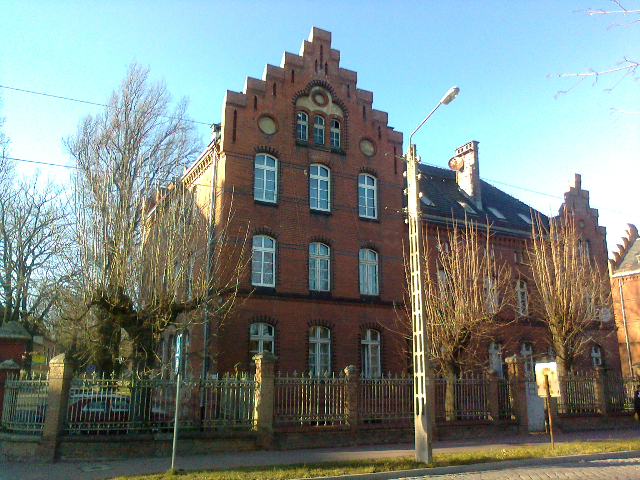 2A Legionów Street in Prudnik